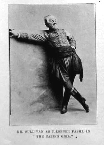 James E. Sullivan as Pilsener Pasha - The Sketch, 12 September 1900, pg. 327